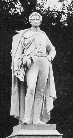 Monument group № 31 in the former Siegesallee in Berlin. The central monument commemorates Frederick William IV of Prussia. Sculptor: Karl Begas, unveiled26 October 1900.